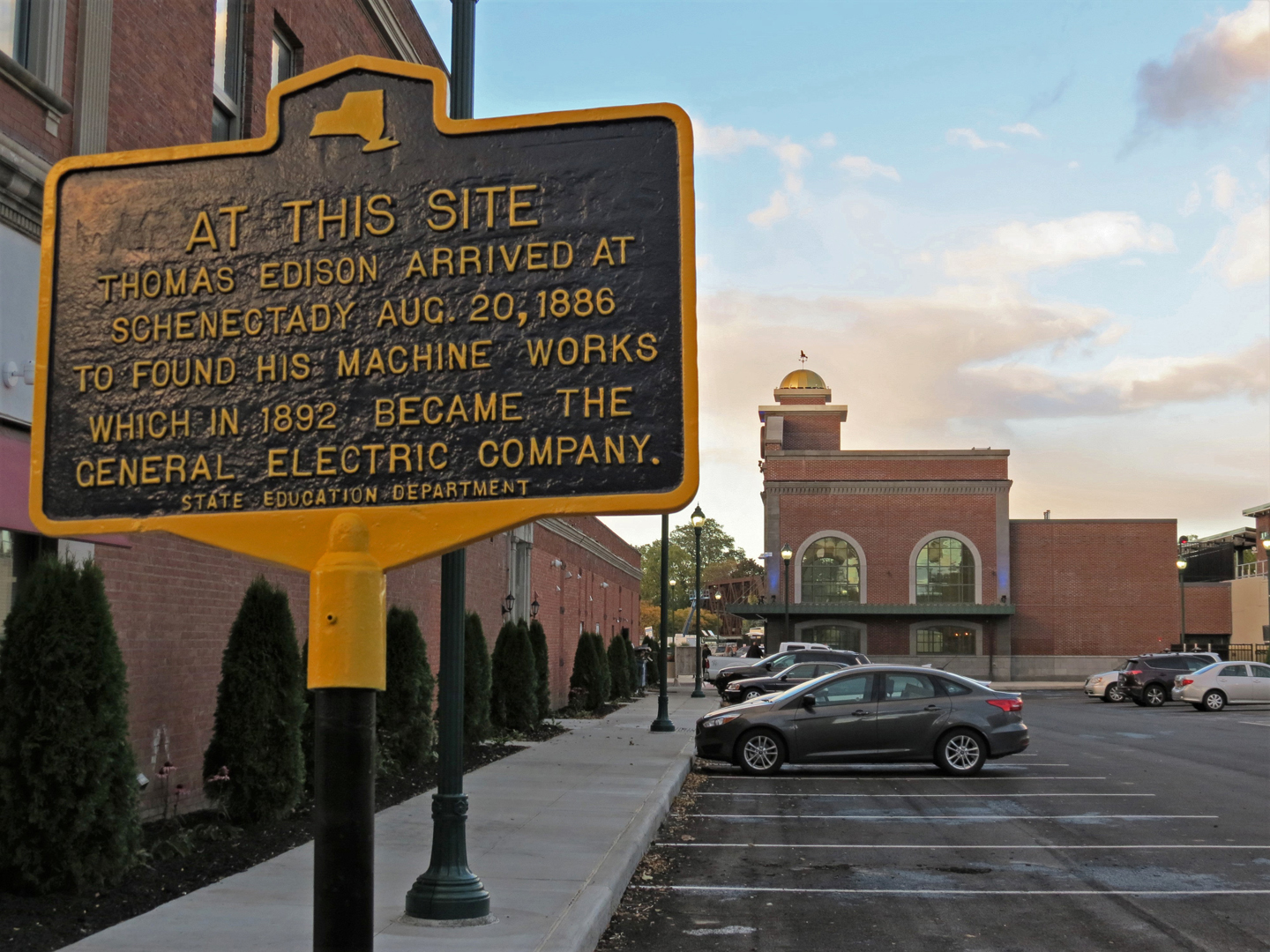 View of new station, from State Street sidewalk to the south